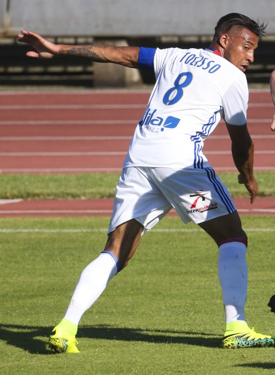 Corentin Tolisso